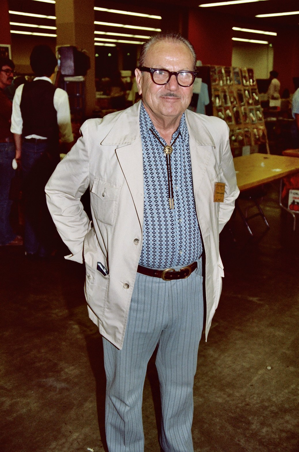 Legendary "Tarzan" artist Burne Hogarth (1911-1996) at the 1982 San Diego Comic Con (today called Comic-Con International). depicted person: Burne Hogarth (age: 70)